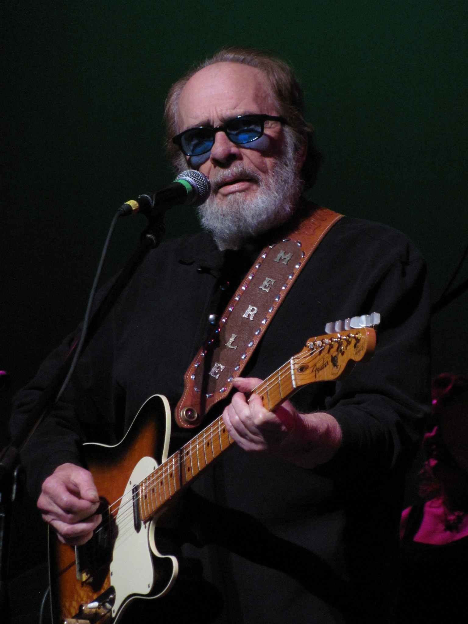 Merle Haggard performing at the Classic Center in Athens, Georgia, during Valentine's Day 2013.